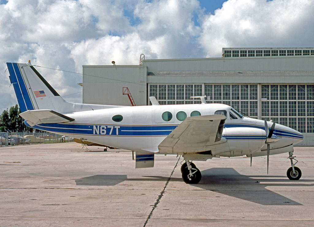 Beech 65-88 Queen Air N67T at Opa Locka airfield Florida in 1979